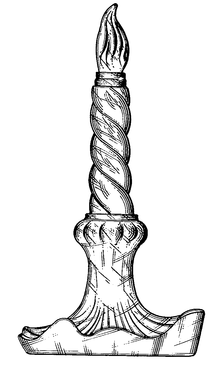 Cropped patent drawing for a perfume bottle in the shape of a lit candle in holder, designed by Marcel Vertes for Elsa Schiaparelli and patented in the USA in June/August 1939